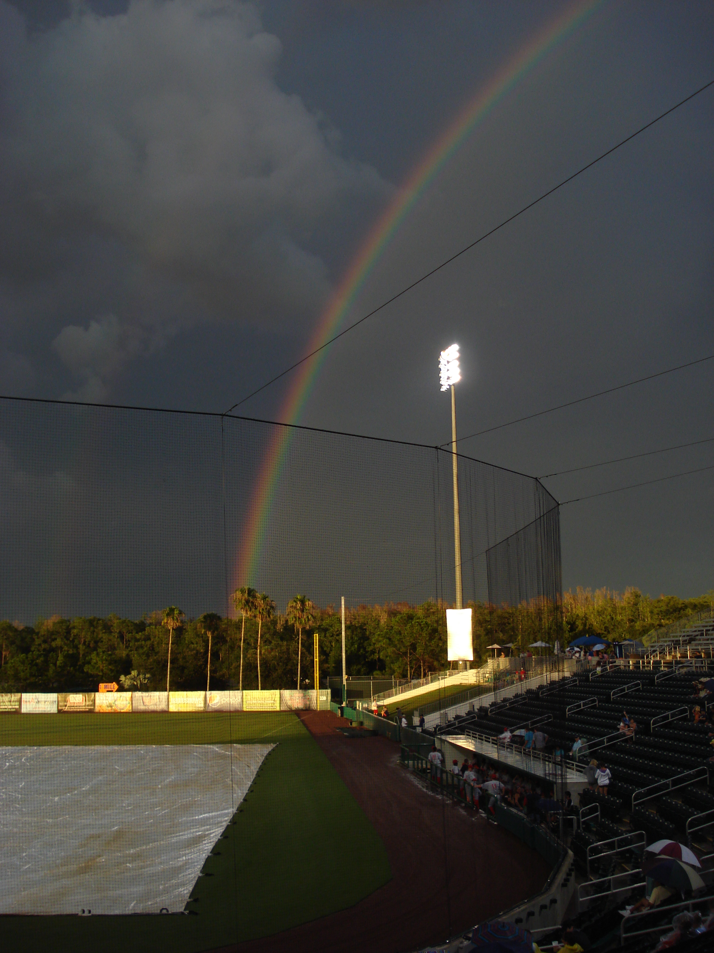 Rainbow over Hammond stadium